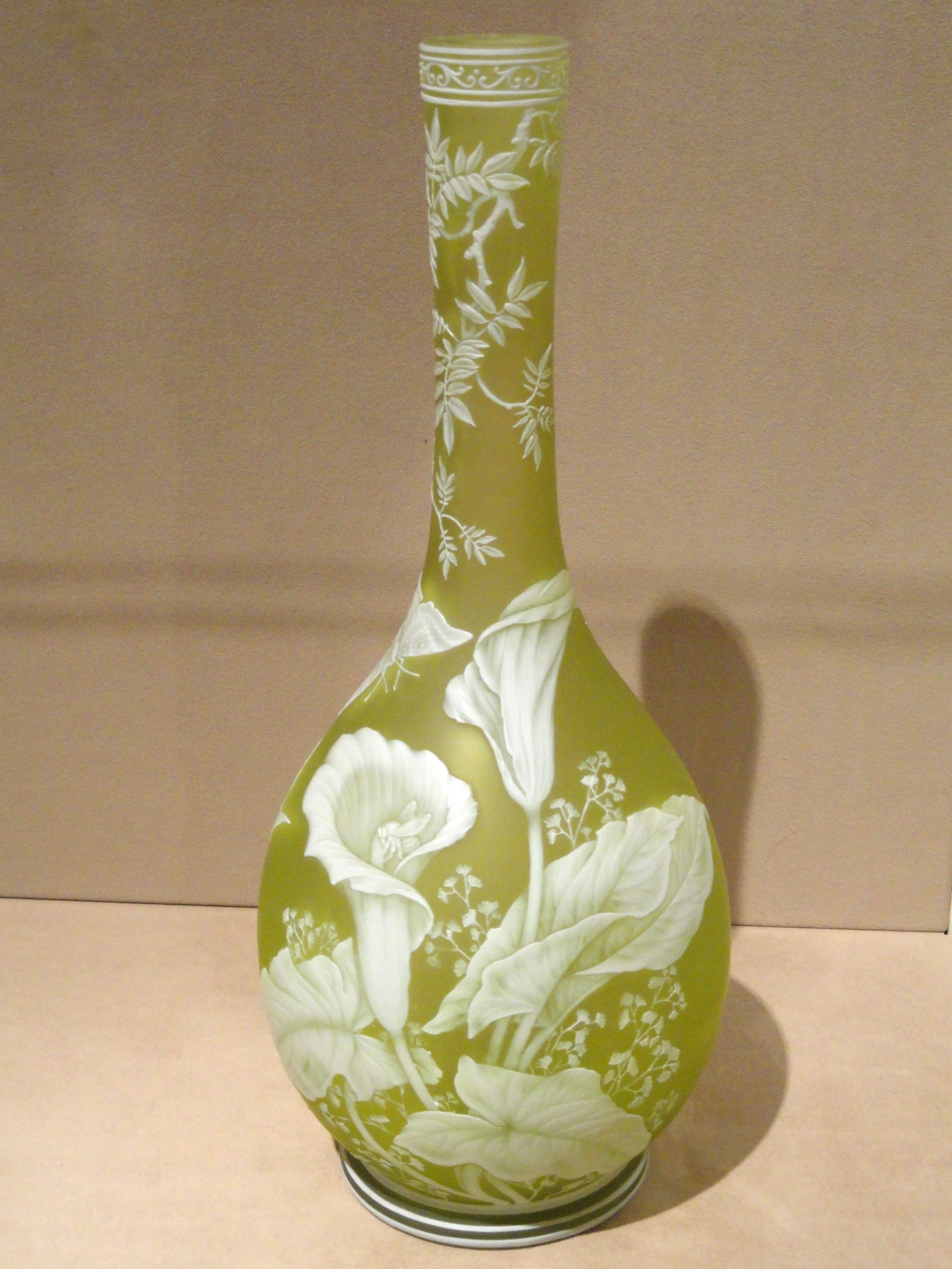 Glass vase attributed to Thomas Webb & Sons, circa 1890. Exhibit in the Indianapolis Museum of Art, Indianapolis, Indiana, USA.